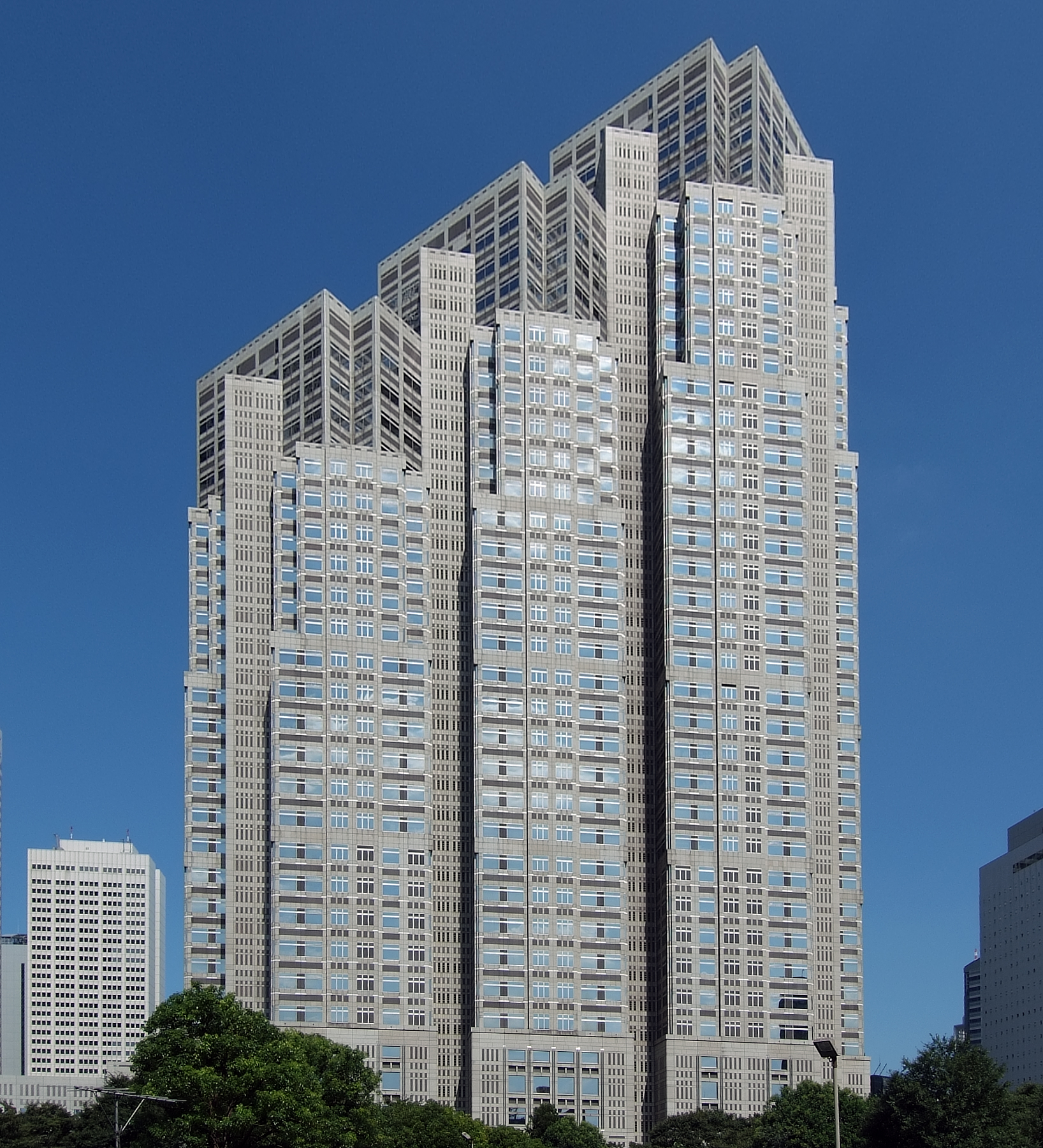 Tokyo Metropolitan Government Building No.2, at shinjyuku-ku Tokyo Japan, designed by Kenzo Tange in 1990.